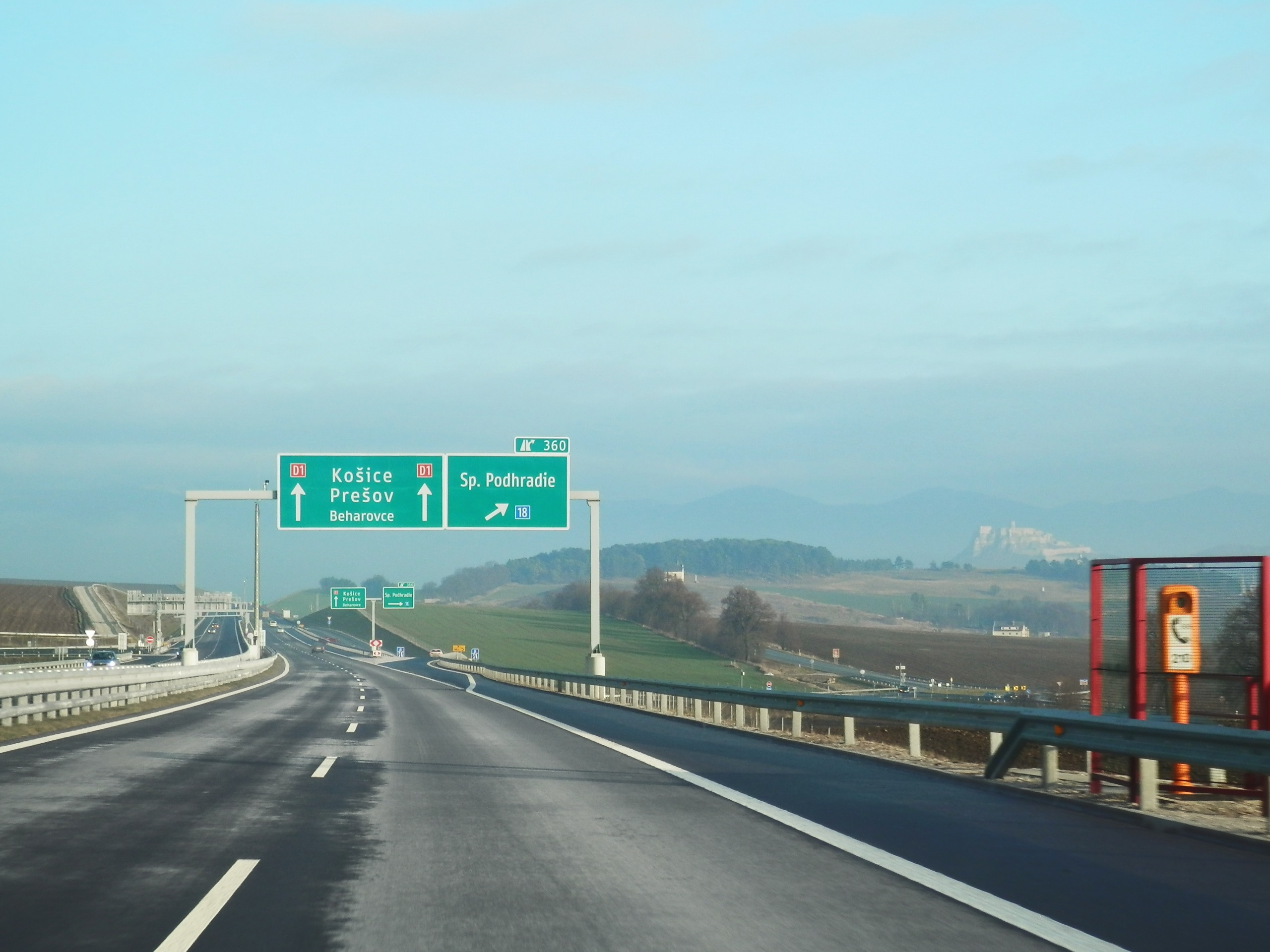 Part of D1 motorway between Levoča and Spišské Podhradie